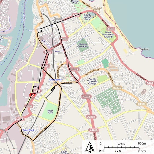 South Shields Corporation Tramways Legend: *━━━ Primary lines *━━━ Secondary lines *━━━ Tertiary lines